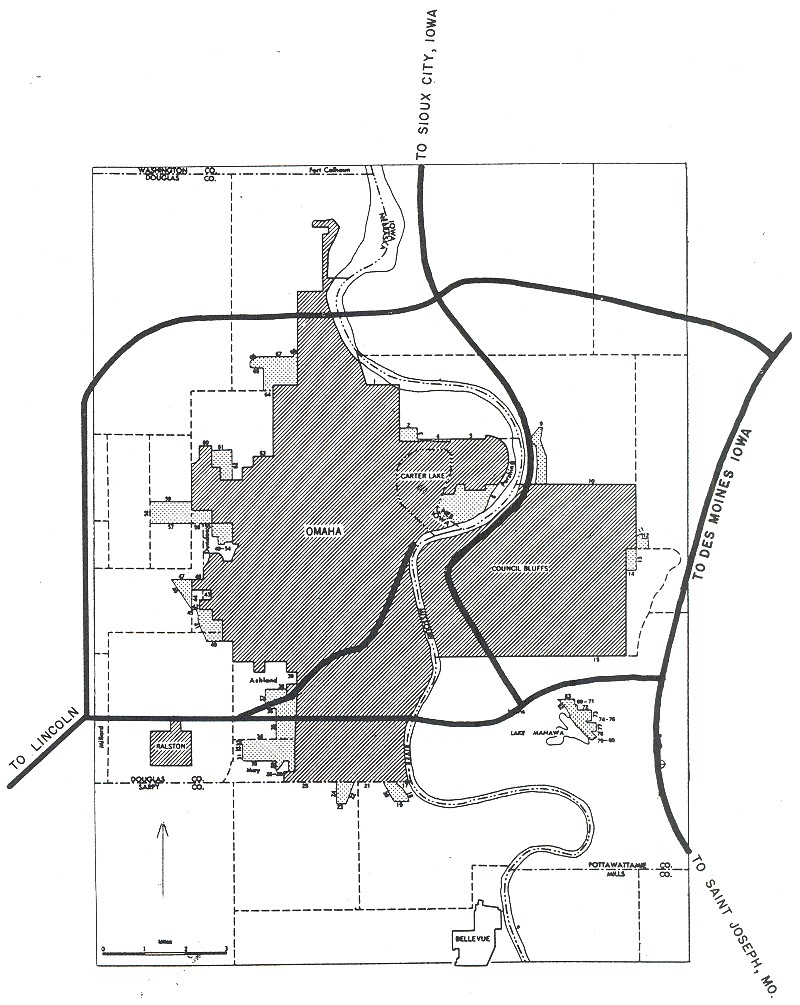 Interstates in today's terms I-29 I-80 I-480 (built to I-29) I-680 (west of I-29; the part east of I-29 is further north and was originally I-80N